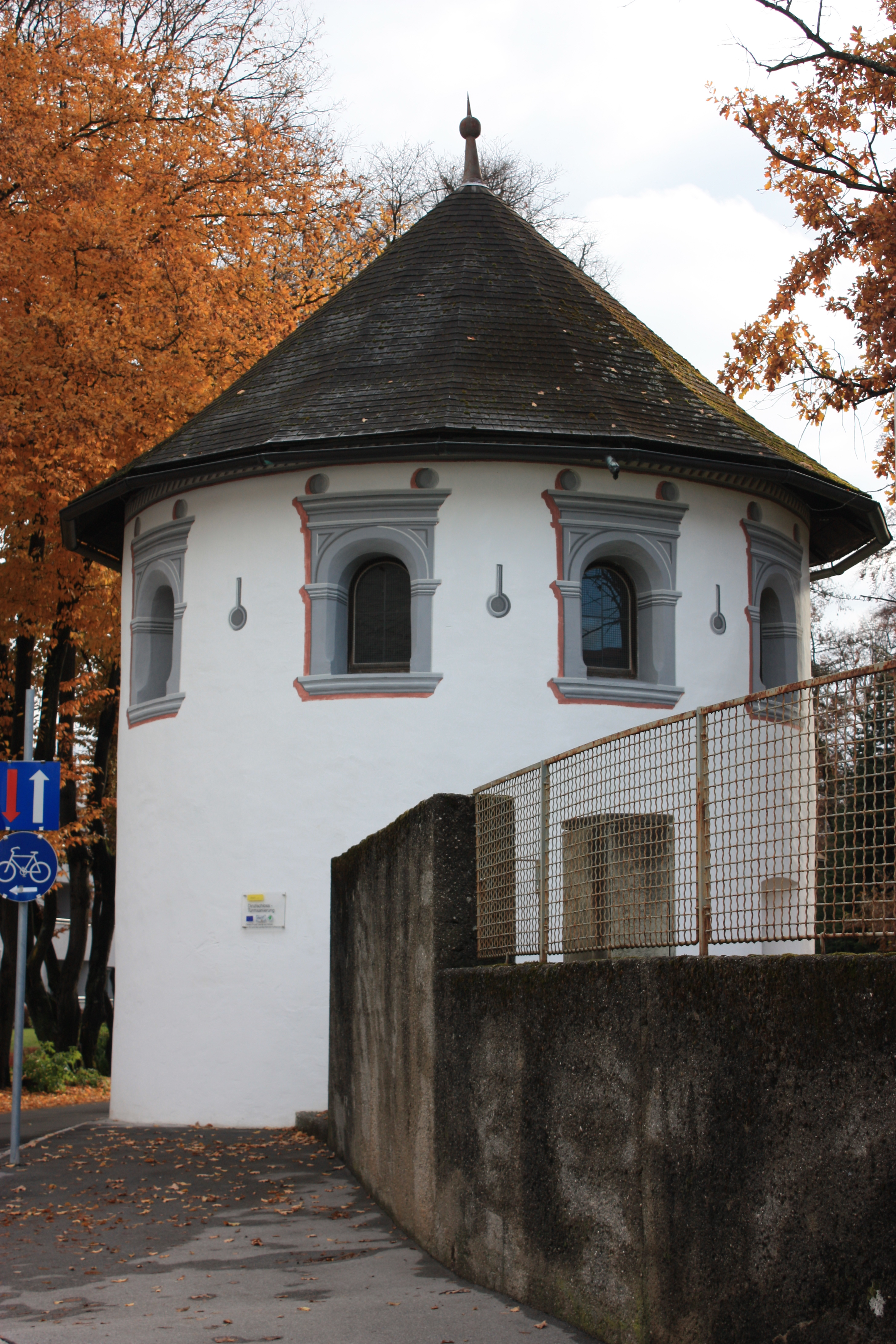 Dinzl-castle - tower Locality: Schloßgasse Community:Villach